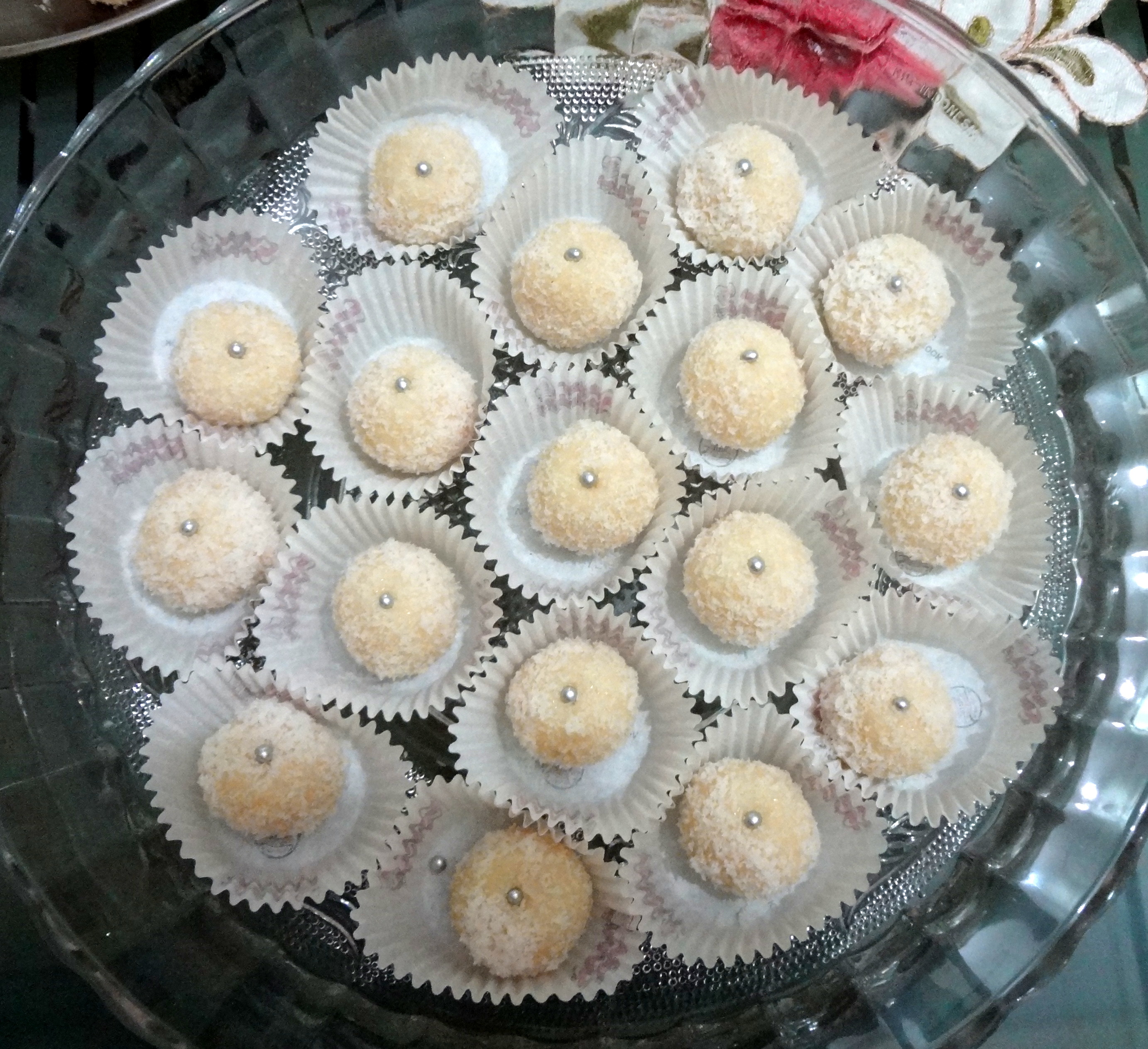 coconut ladoos are specially made during festivals like diwali, ganesh chaturthi, dussehra etc.